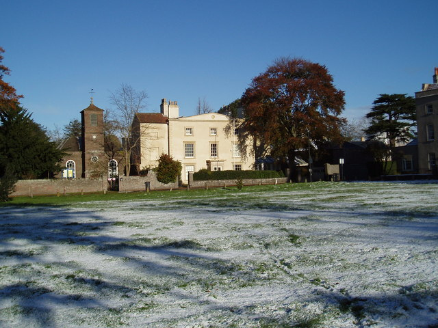 Unitarian Chapel and the Old House, Frenchay, Gloucestershire, seen from the south